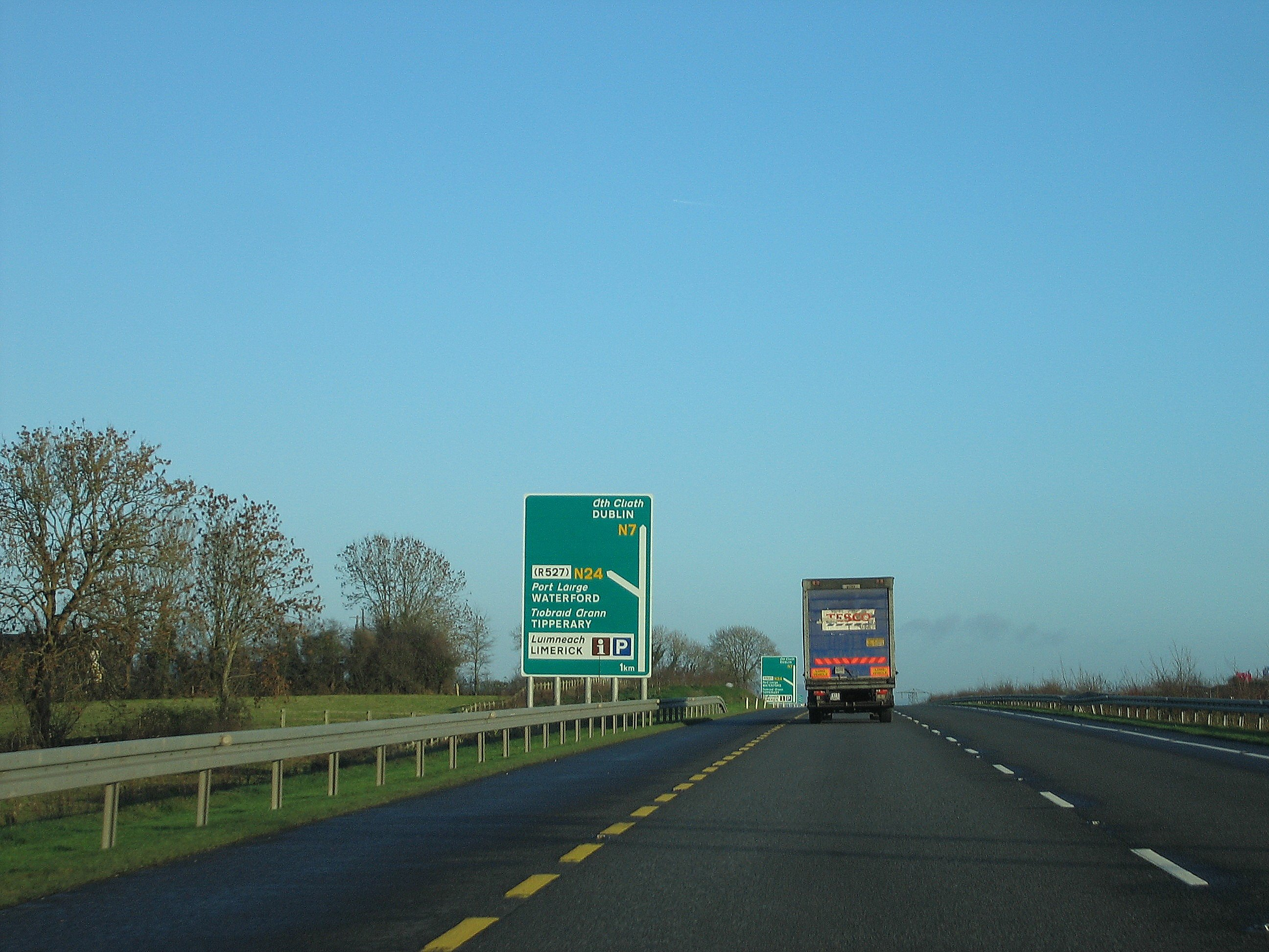 The N7 in Limerick, Ireland.